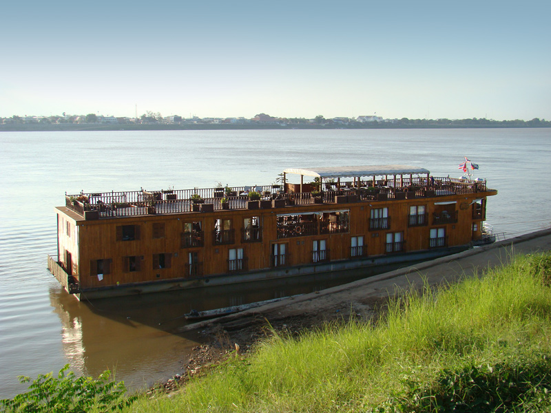 Thakhek, Khammouane Province, Laos.